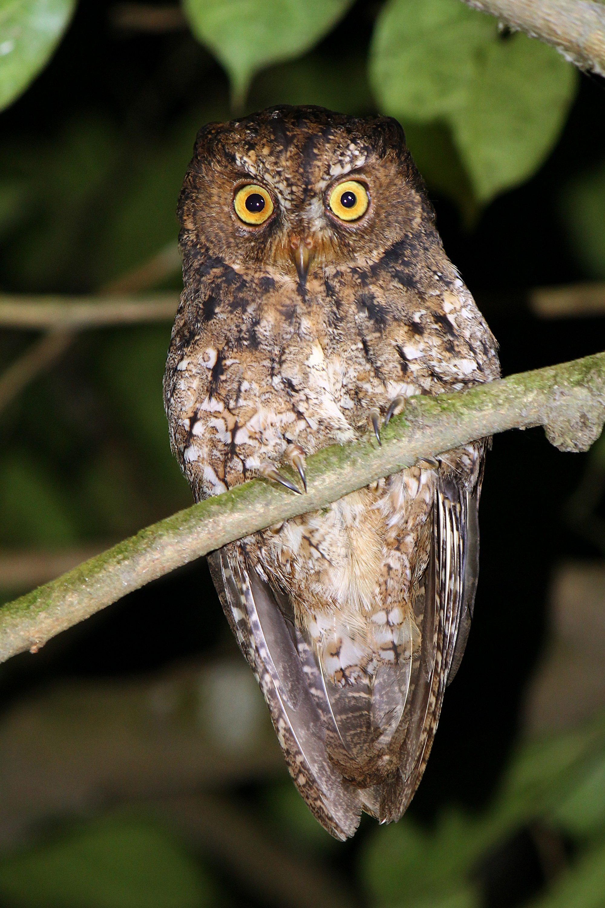 Sulawesi Scops Owl